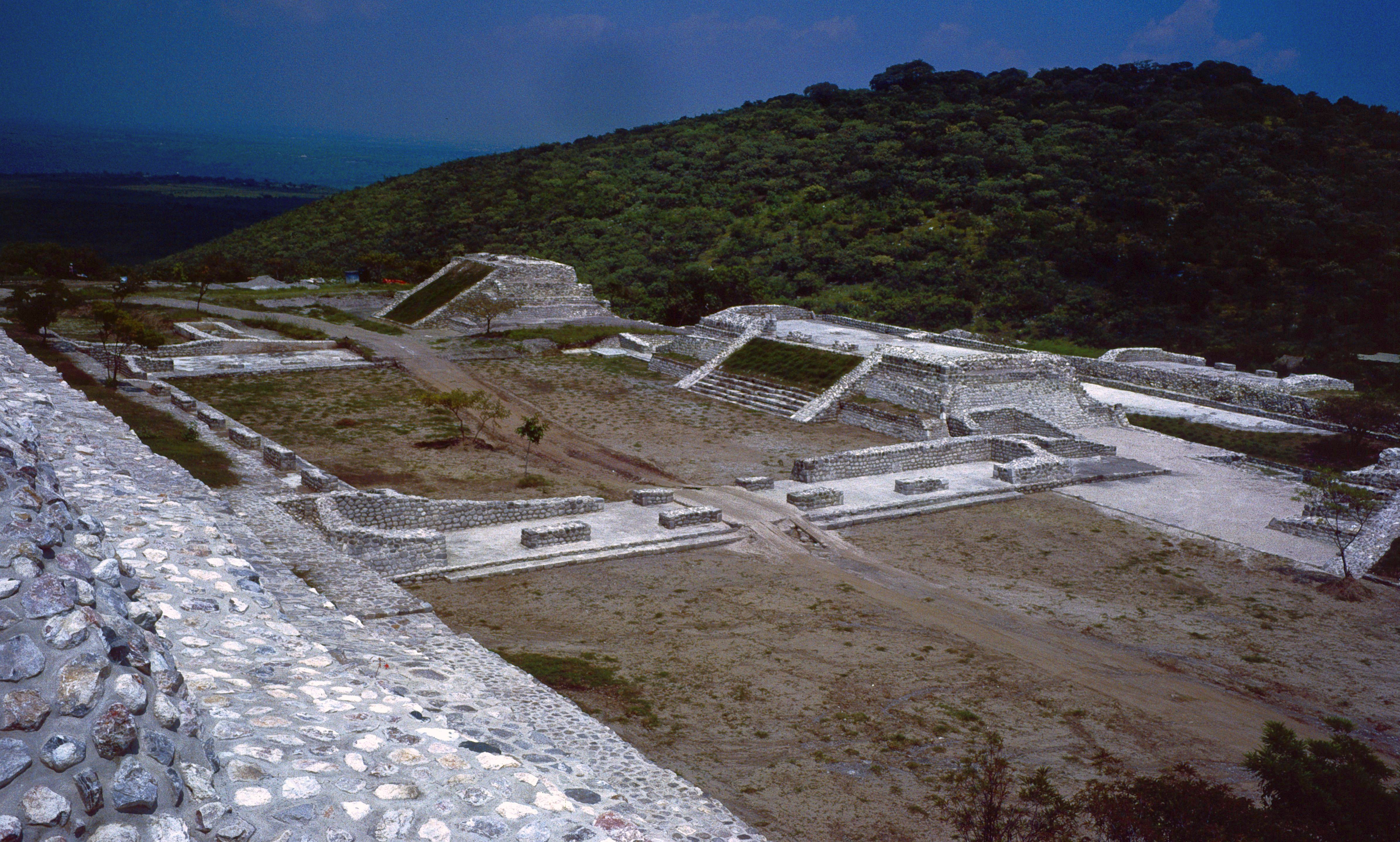 Xochicalco, Morelos, Mexico: eastern terrace